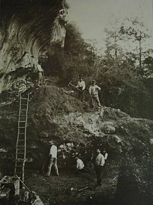 Photo of 1911 showing the archaeological excavations of the cave: Abri de Cap Blanc